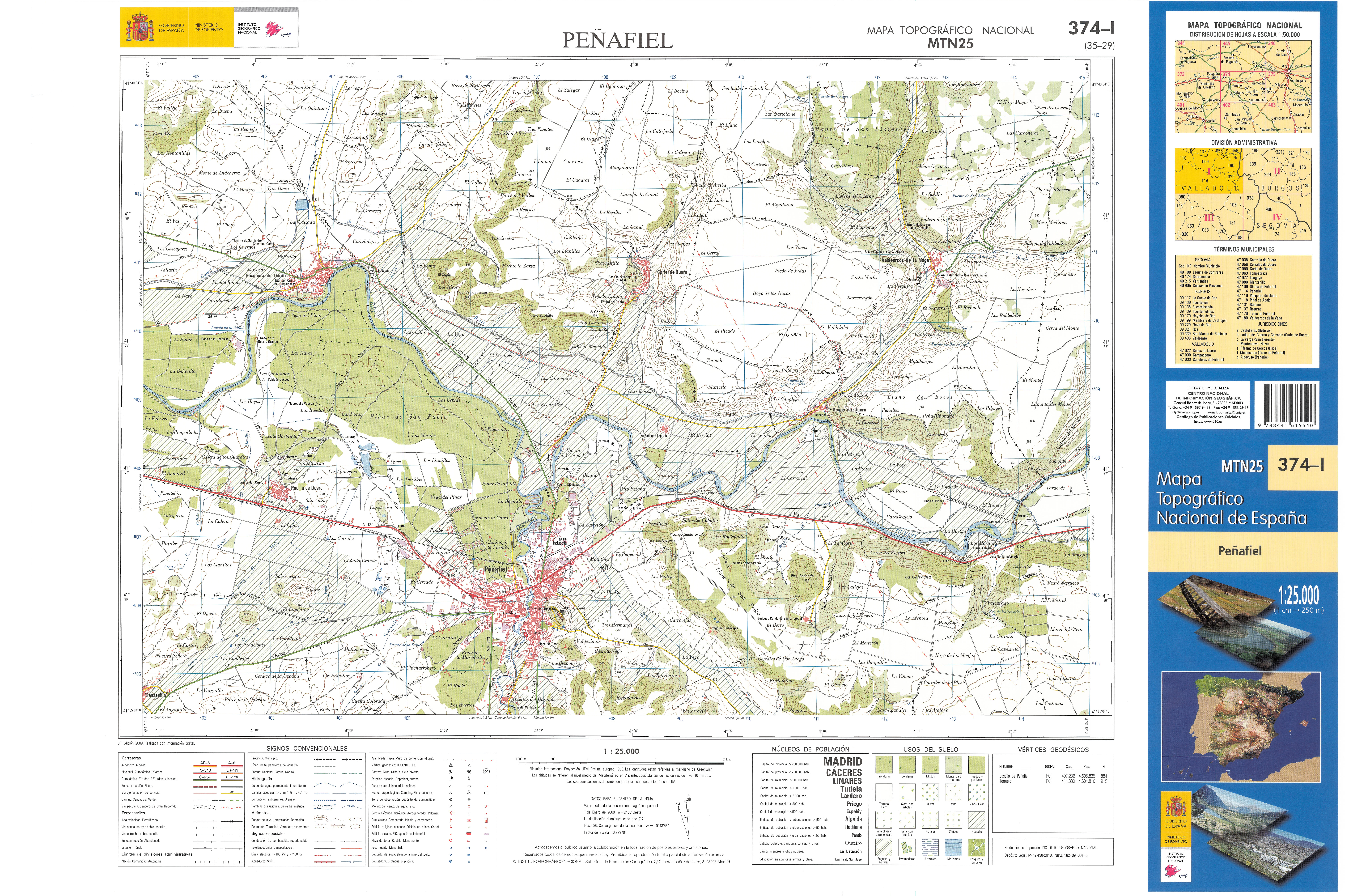 Fragment 0374c1 of the National Topographic Map of Spain in 2009 at a scale of 1:25000 printed and scanned with a resolution of 250 ppi. It shows Peniafiel.